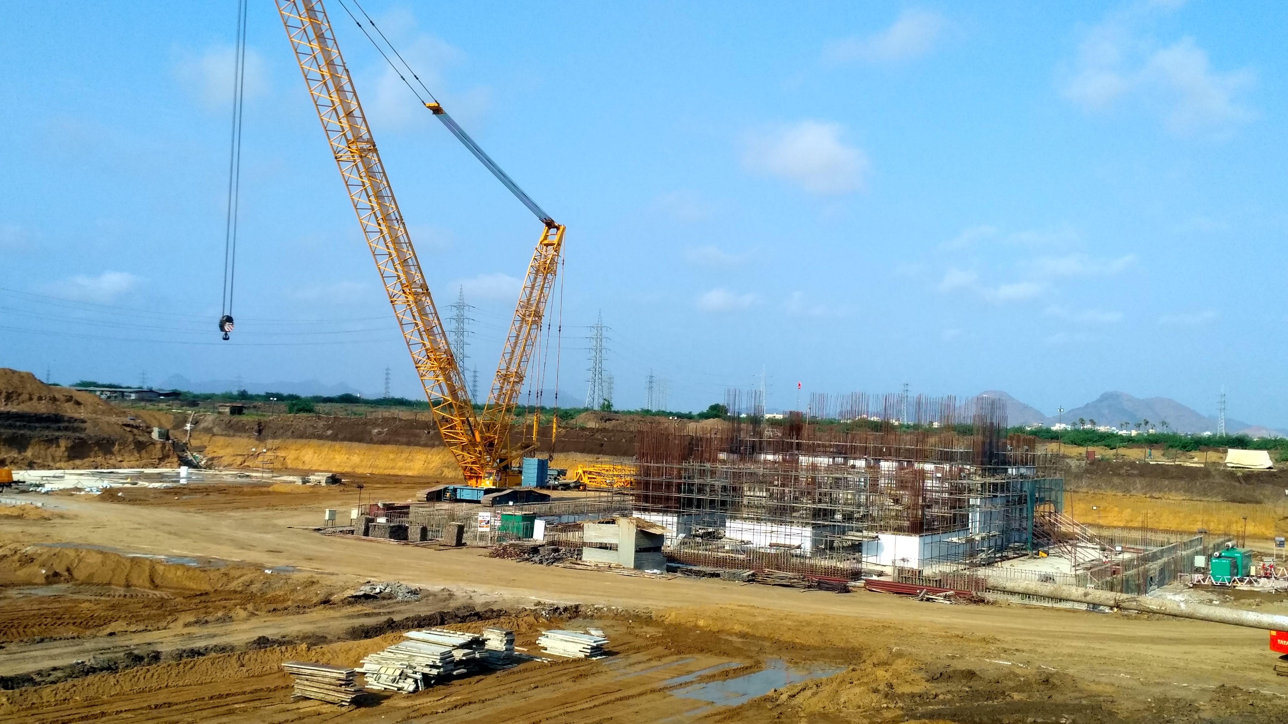 Amaravati is a Green Field city under construction in the Indian state of Andhra Pradesh